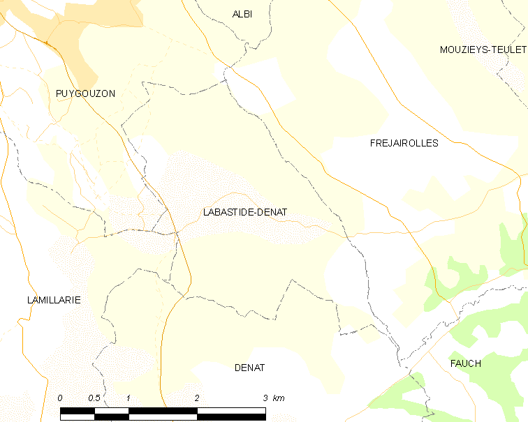 Map of French municipality Labastide-Dénat